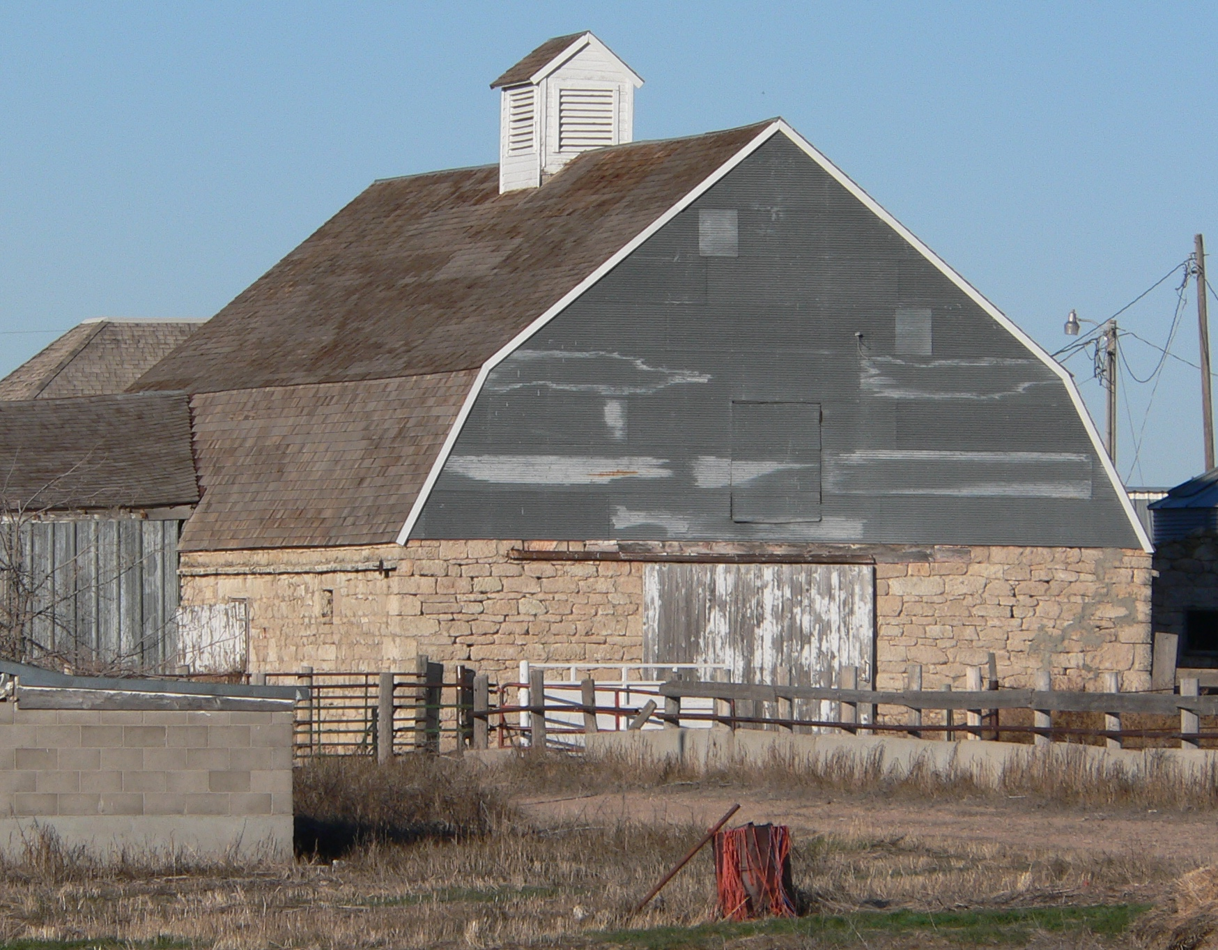 Barn at Herboldsheimer Ranch, located in rural Cheyenne County, Nebraska northeast of Potter, Nebraska, at the intersection of county roads 40 and 87.